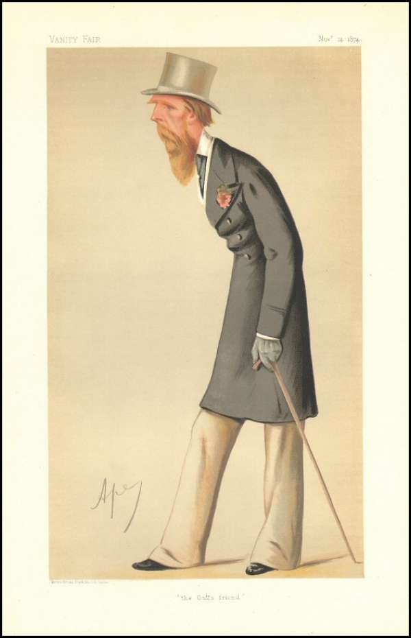 Caricature of Christopher Sykes MP. Caption read "the Gull's friend".